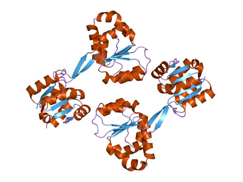 Cartoon representation of the molecular structure of protein registered with 1jr2 code.